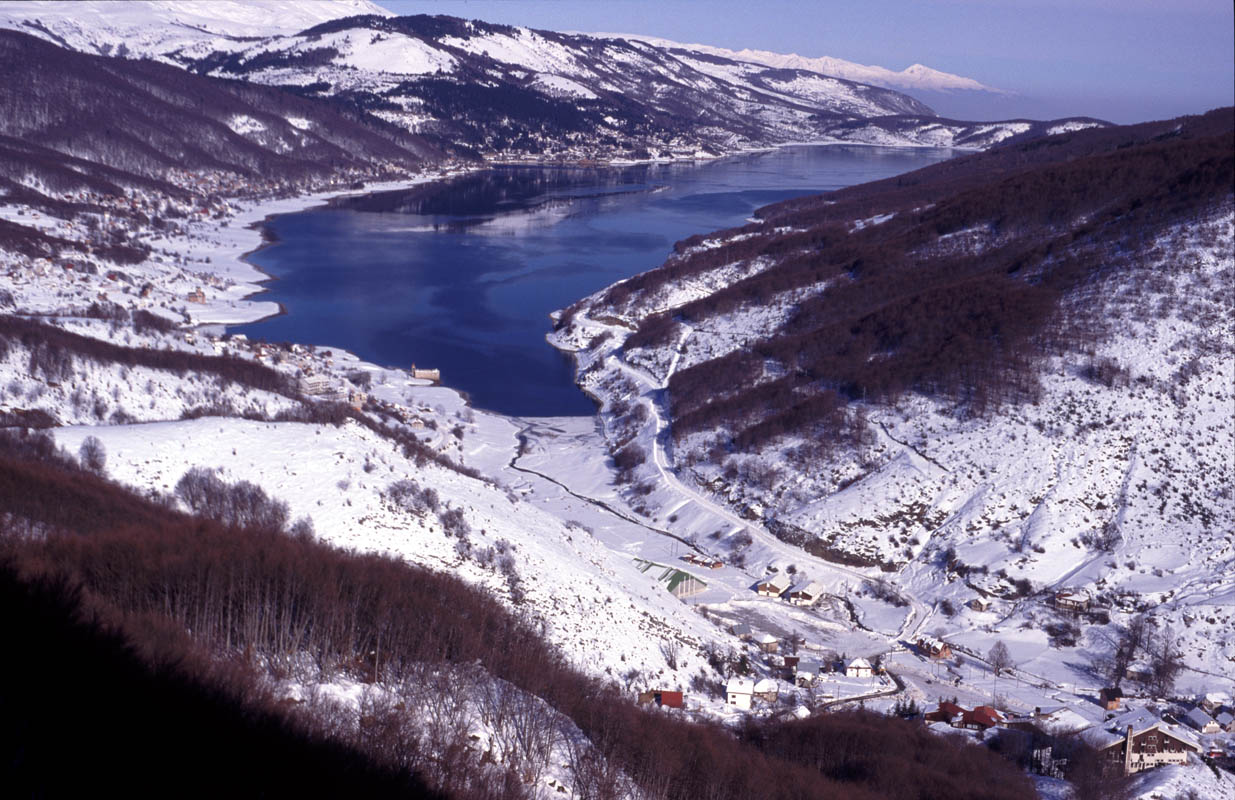 Panoramic image of Mavrovo, Republic of Macedonia in Winter (from the ski lift).